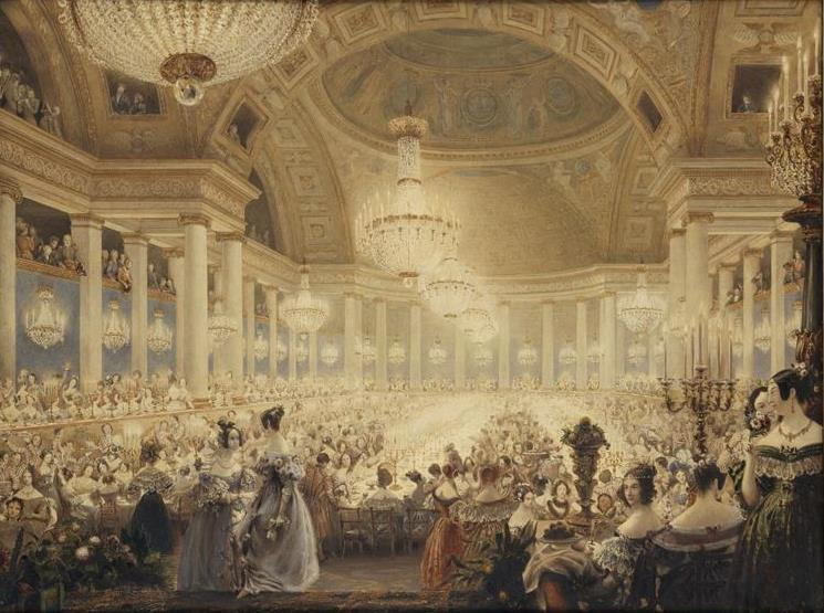 A banquet of ladies at the Tuileries Palace, 1835